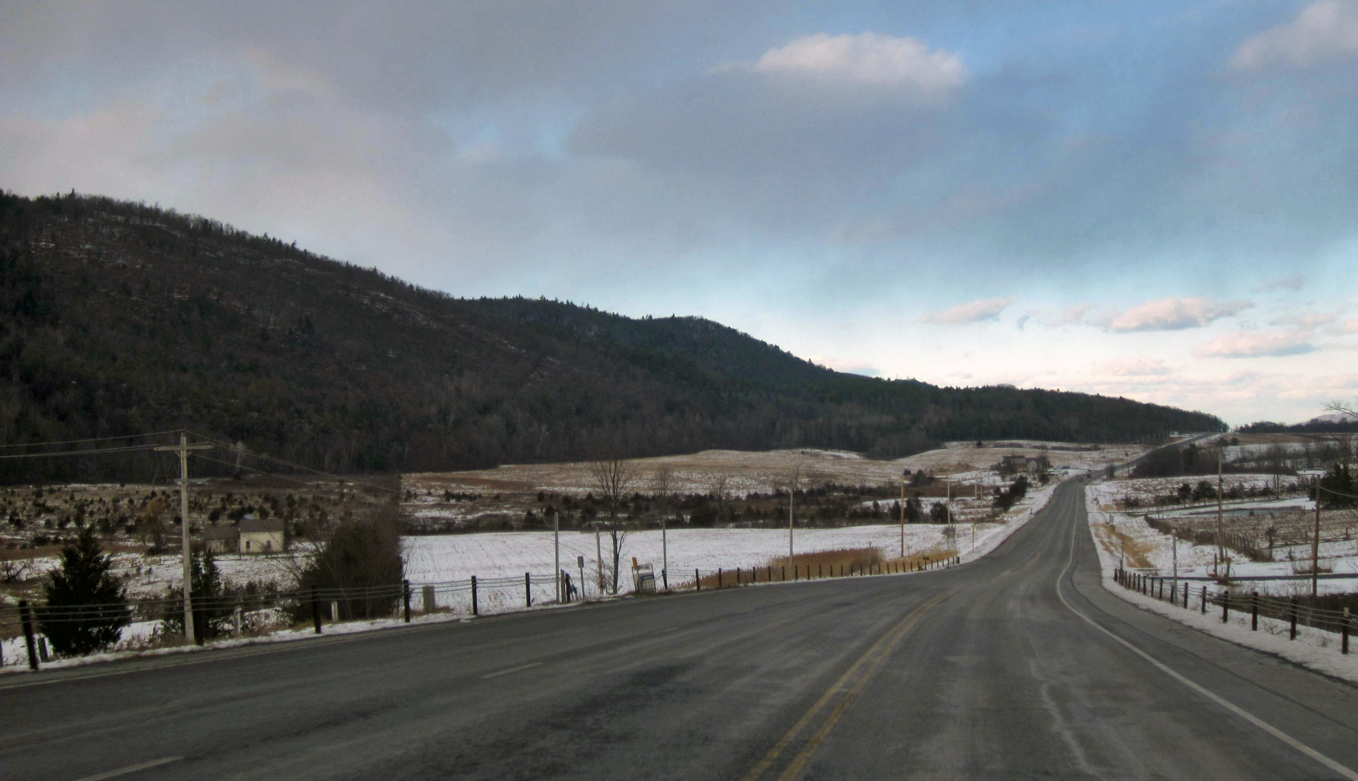 View northbound along New York State Route 22 during early December in northern Washington County